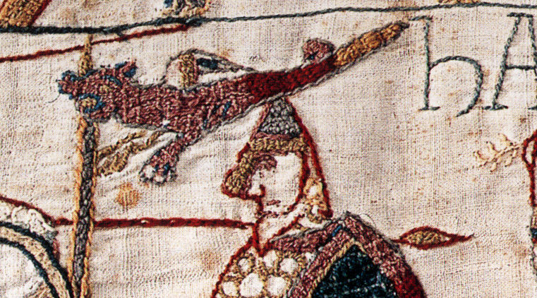 The dragon banner of England or Wessex protrayed on the Bayeux Tapestry at the scene of King Harold's death "Hic Harold Rex interfectus est"